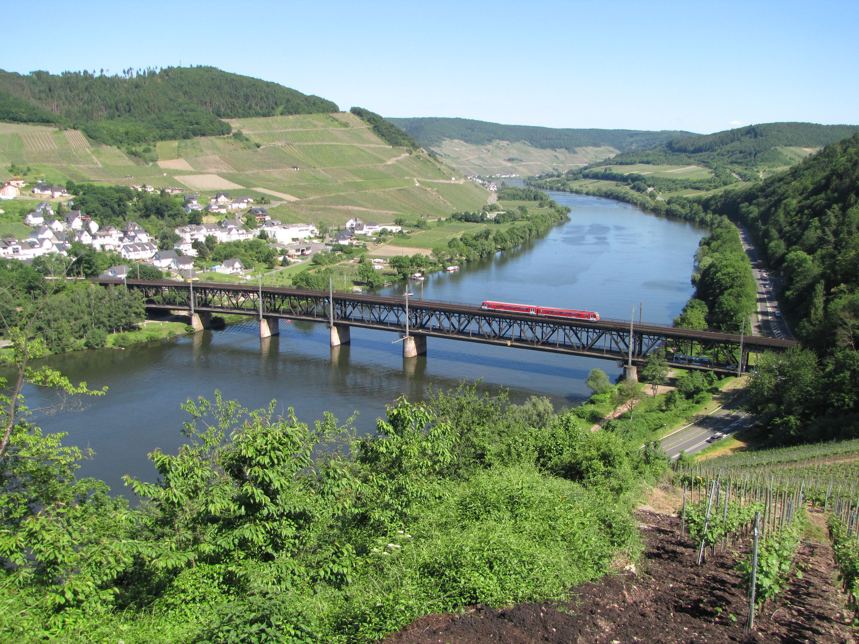 Double-decked bridge Alf-Bullay